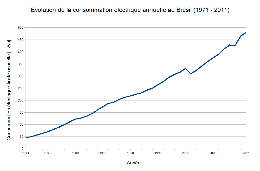 Evolution of the final annual electricity consumption in Brazil between 1971 and 2011